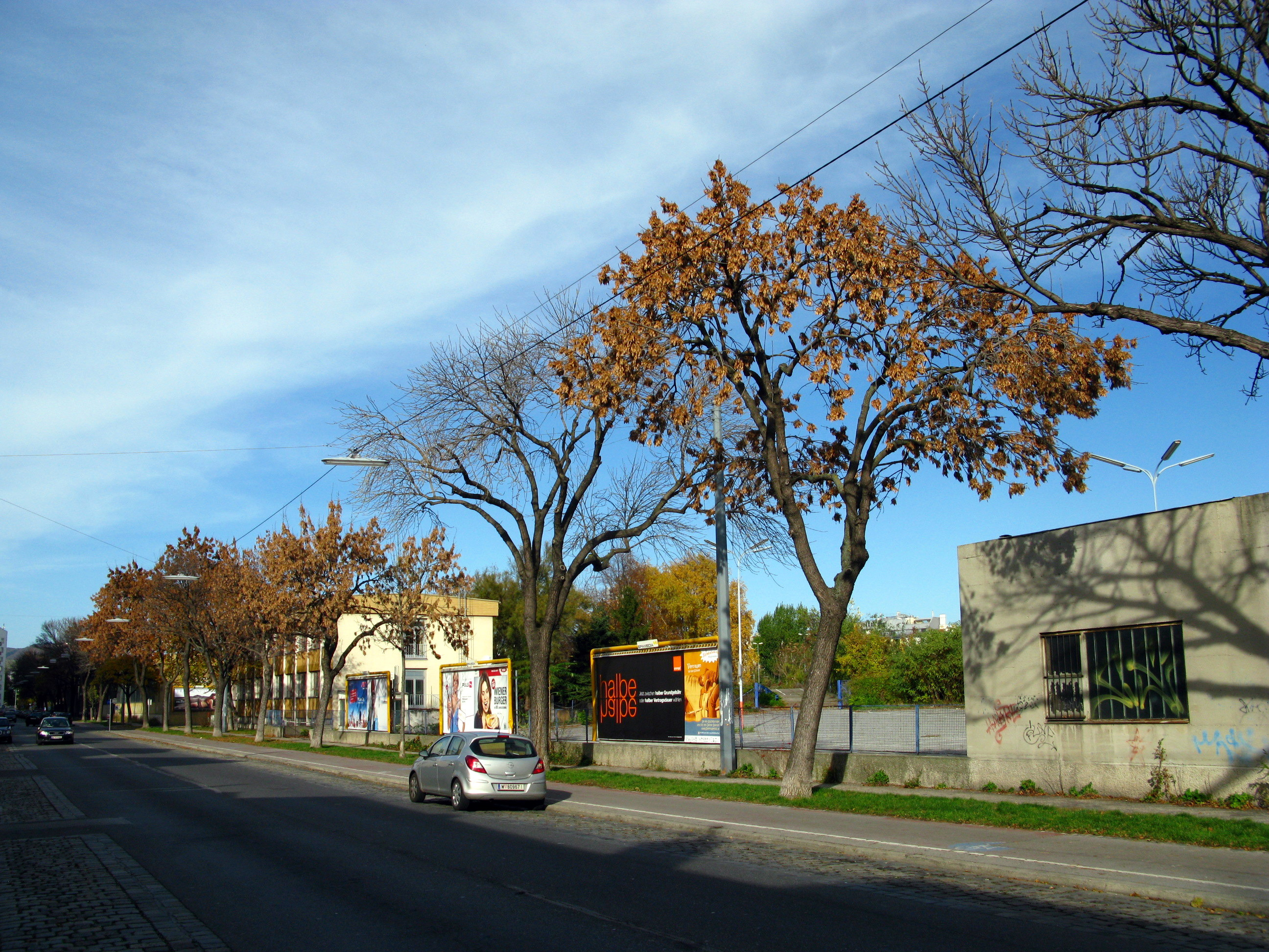 Nordwestbahnstraße with Northwest Railway Station (southernmost part of the bus garage Nordwestbahnstraße 16) in Vienna / Brigittenau / Austria / European Union. Along the road three posters. Blue sky, light clouds, autumn mood.